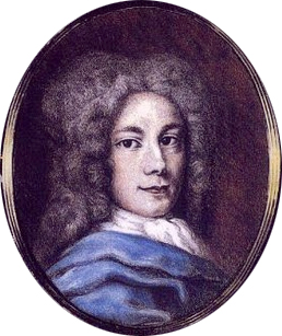 Miniature, possibly Handel